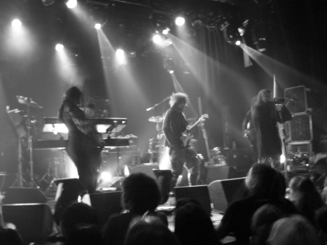 secret chiefs 3